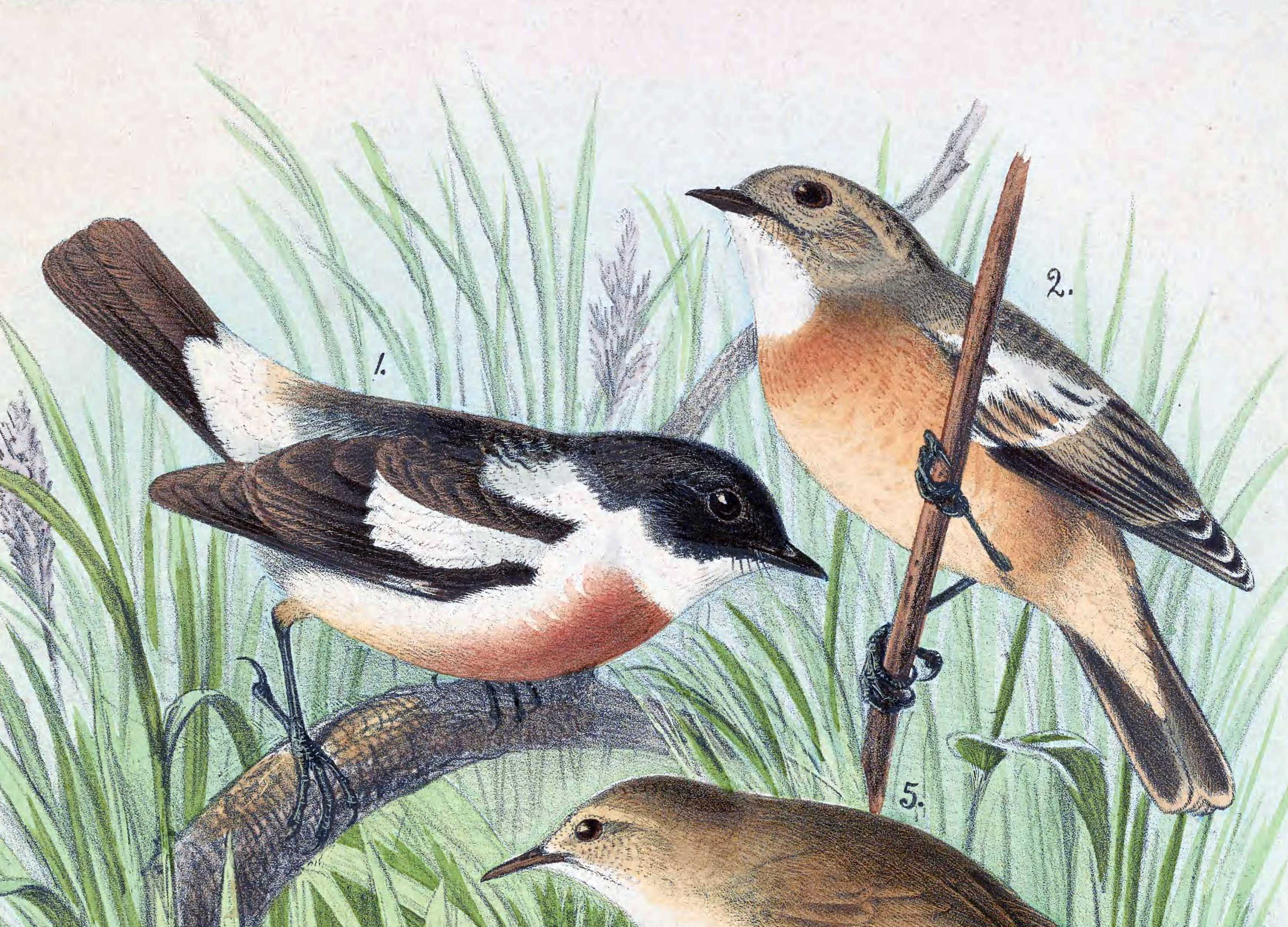 « Pratincola insignis » = Saxicola insignis (White-throated Bush Chat) - adult male and young male